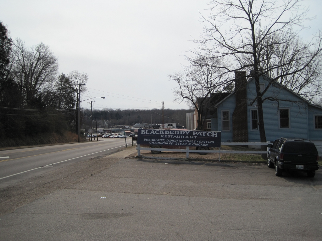 Camden, Tennessee. I took the photo myself, feel free to use it.